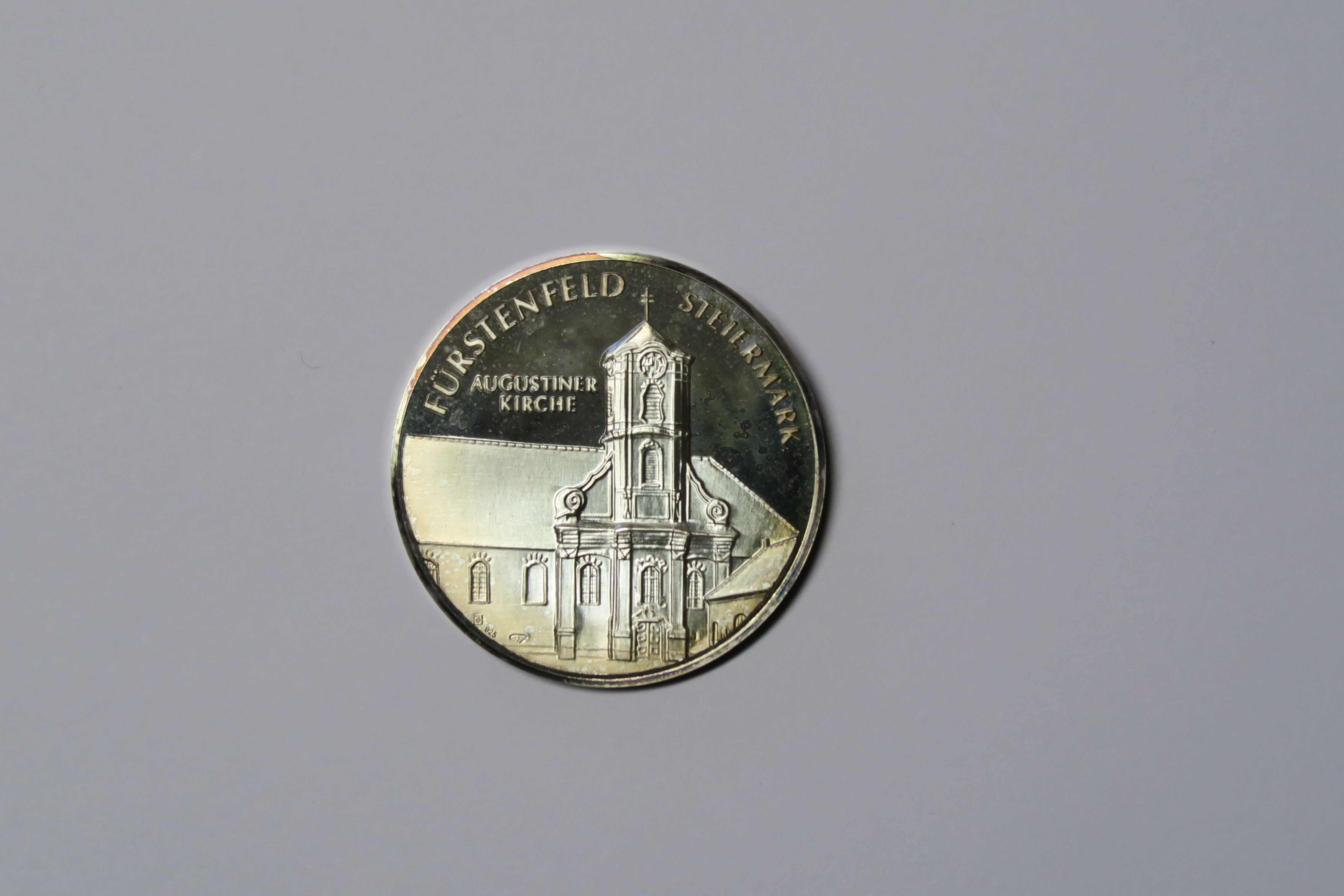 Ehemalige Augustiner-Eremiten Kirche Fürstenfeld